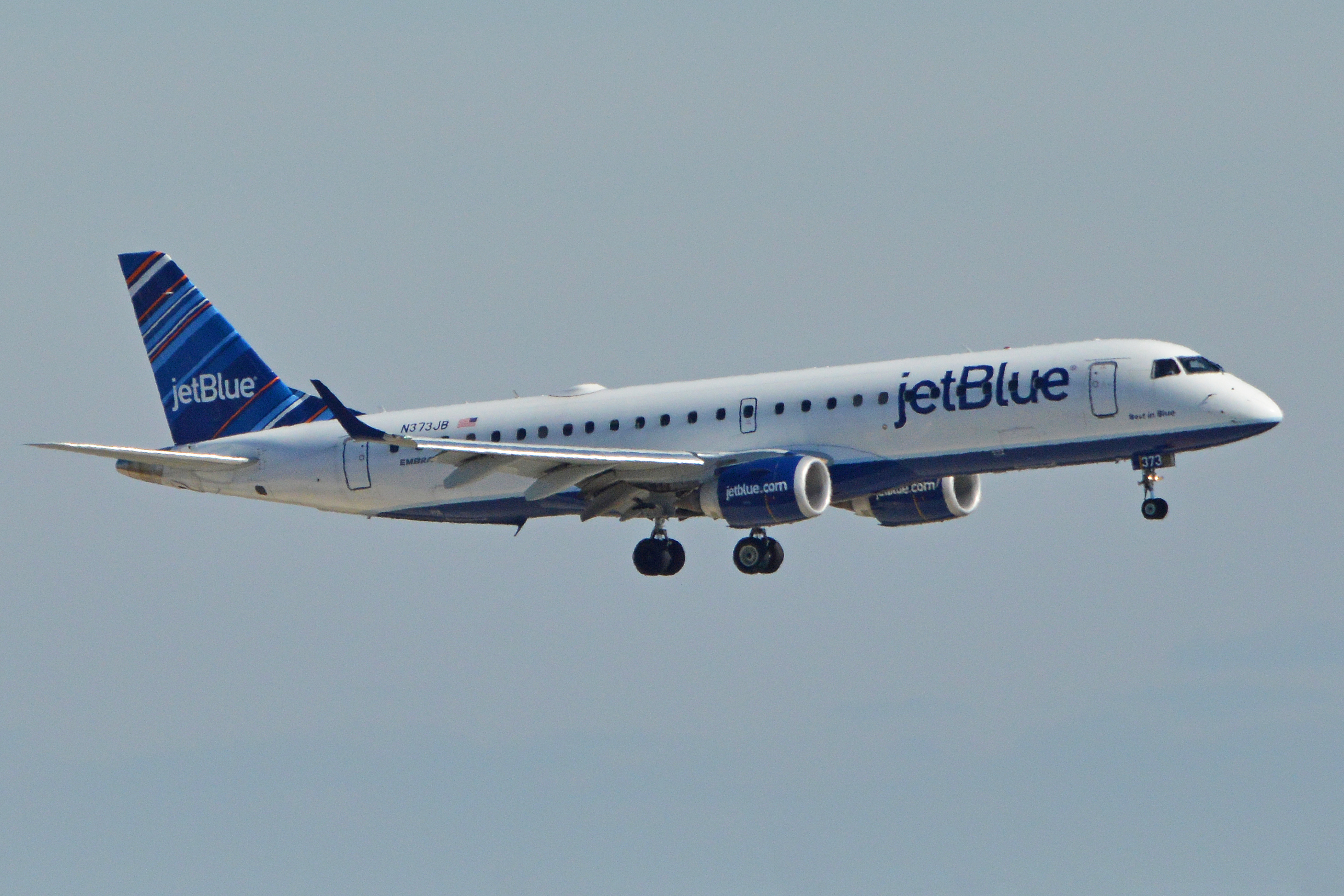 c/n 1900624, l/n 624. Built 2013. Arriving at JFK Airport, New York. 27-2-2016